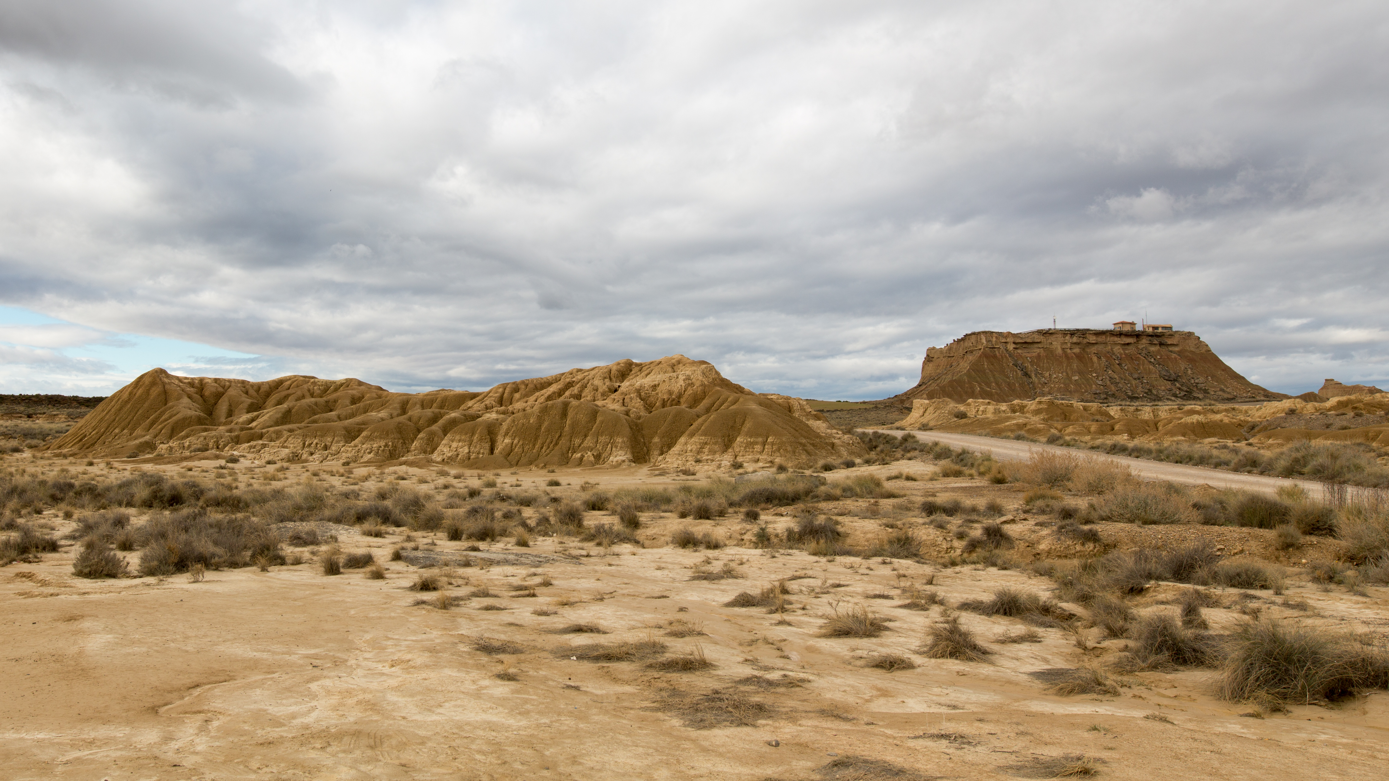 Bardenas